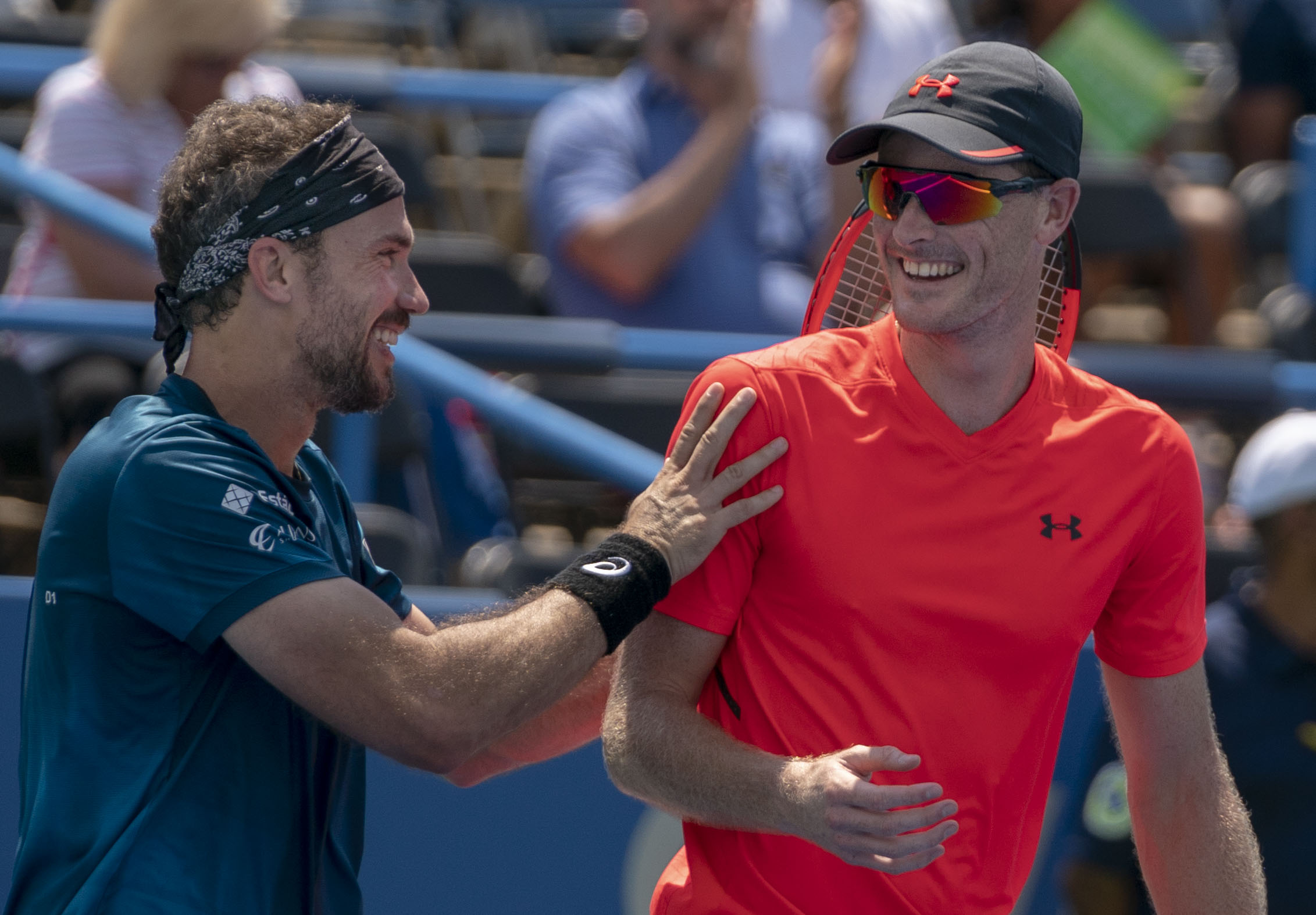 2018 Citi Open Tennis Finals